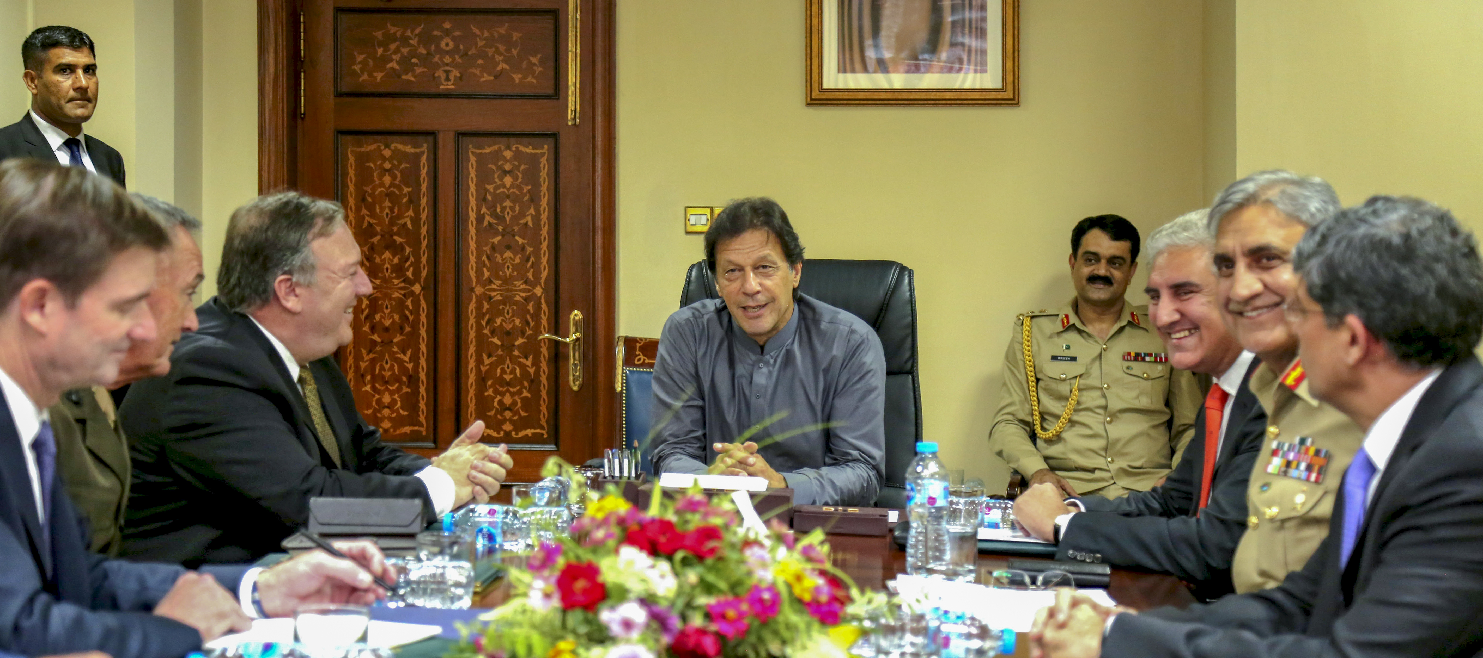 U.S. Secretary of State Michael R. Pompeo participates in a meeting with Pakistan Prime Minister Imran Khan in Islamabad, Pakistan